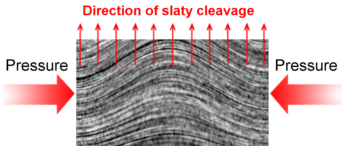 This PNG graphic was created with GIMP. Dynamic metamorphic rock english text. Information for this image can be found in the book: Jorden - Illustrerat uppslagsverk/sid:80 /Förlag: Globe förlaget,2005,/ ISBN 91-7166-020-8 /Orginal title: Earth (ISBN 1-4053-0018-3)(2003 Doring Kindersley)